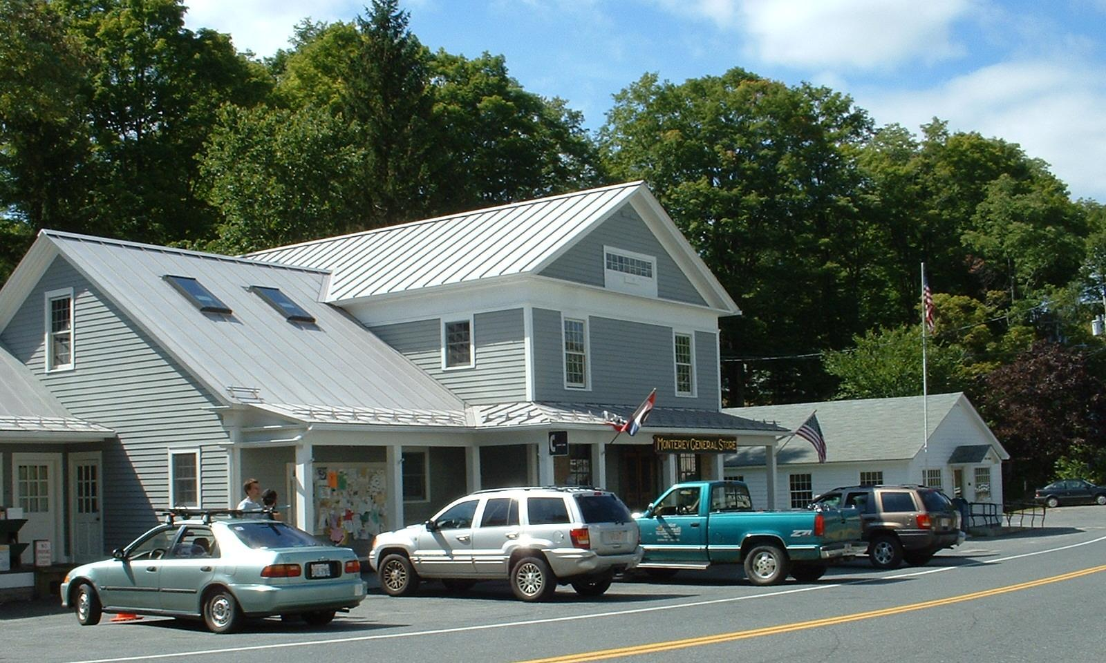 Monterey General Store and Town Hall, Monterey, Massachusetts